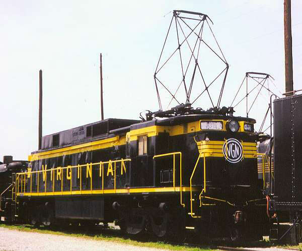 Virginian Railway 135, a class EL-C ignitron rectifier mainline electric locomotive preserved at the Virginia Museum of Transportation. Photo by Frank Hicks.